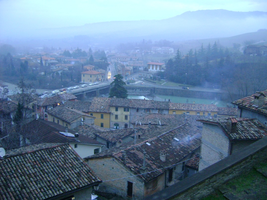 View of Cusercoli from the castle